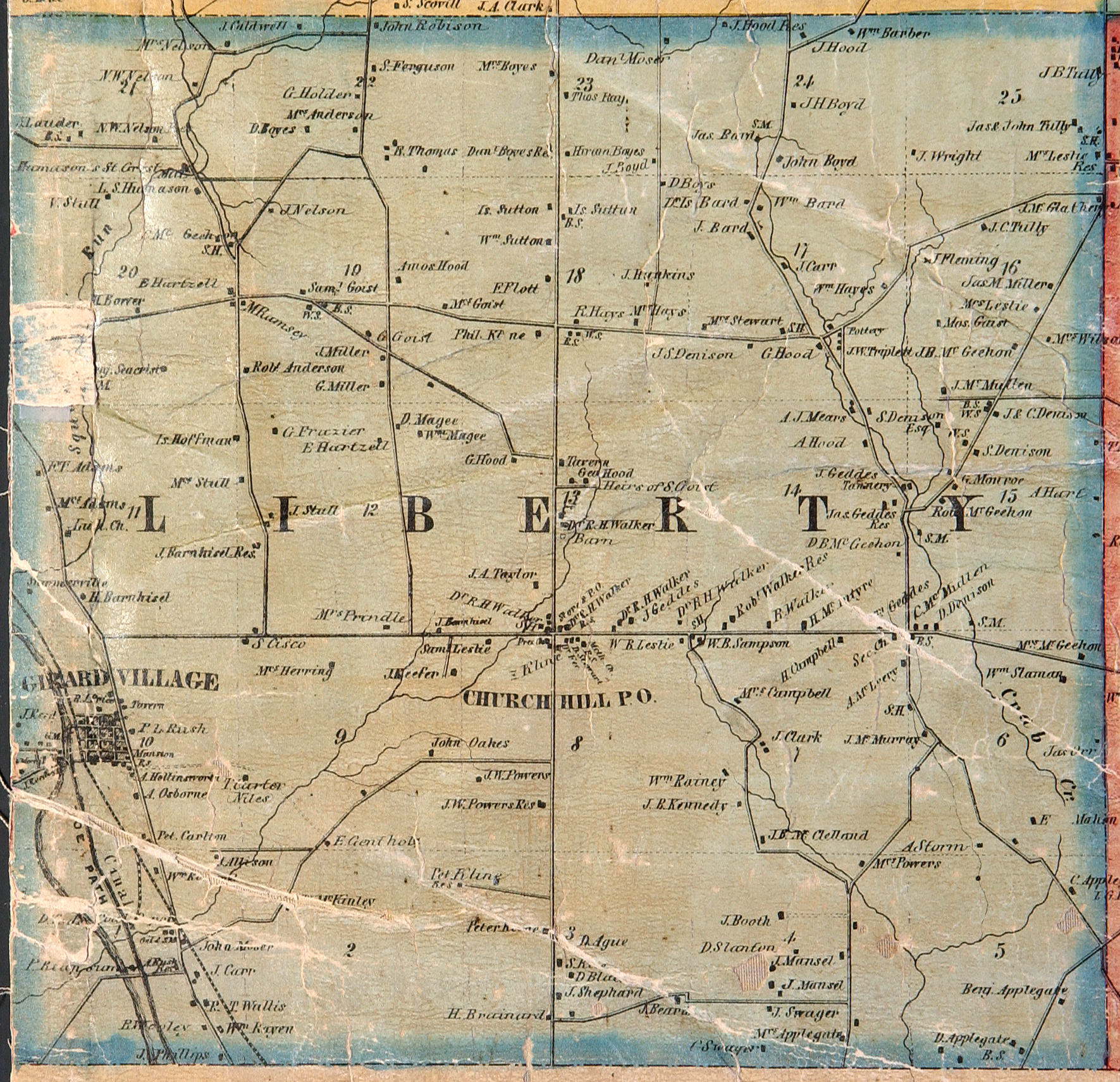 Map of Liberty Township, Trumbull County, Ohio, United States of America; dated 1856.